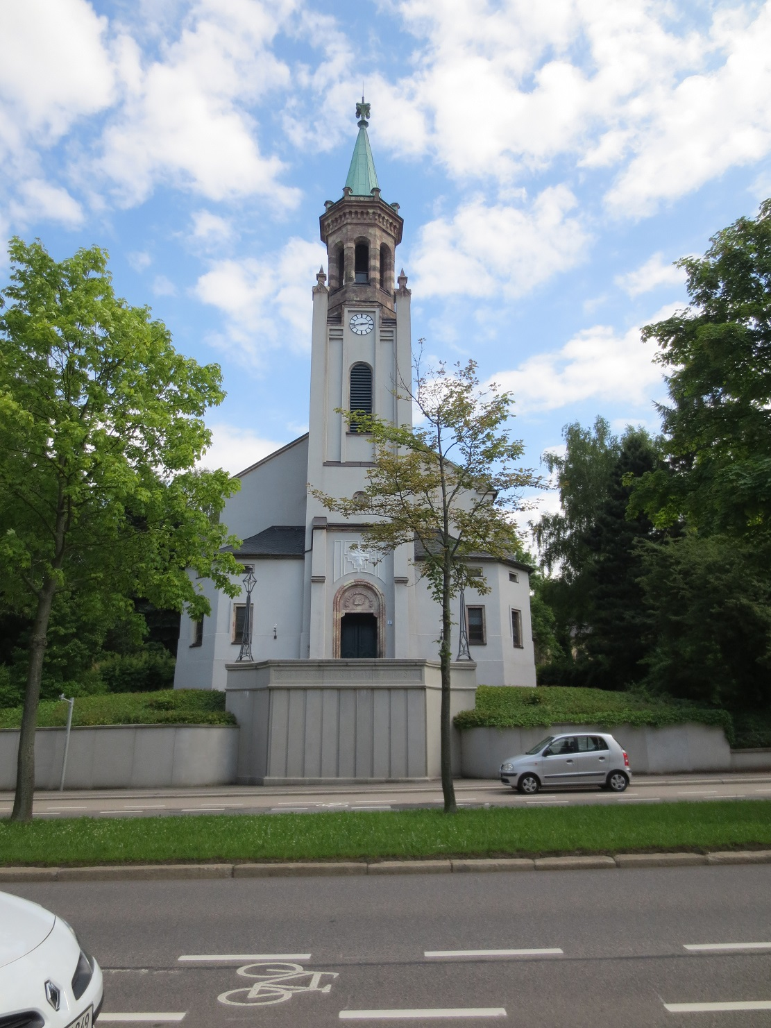 Hilbersdorfer Kirche Chemnitz